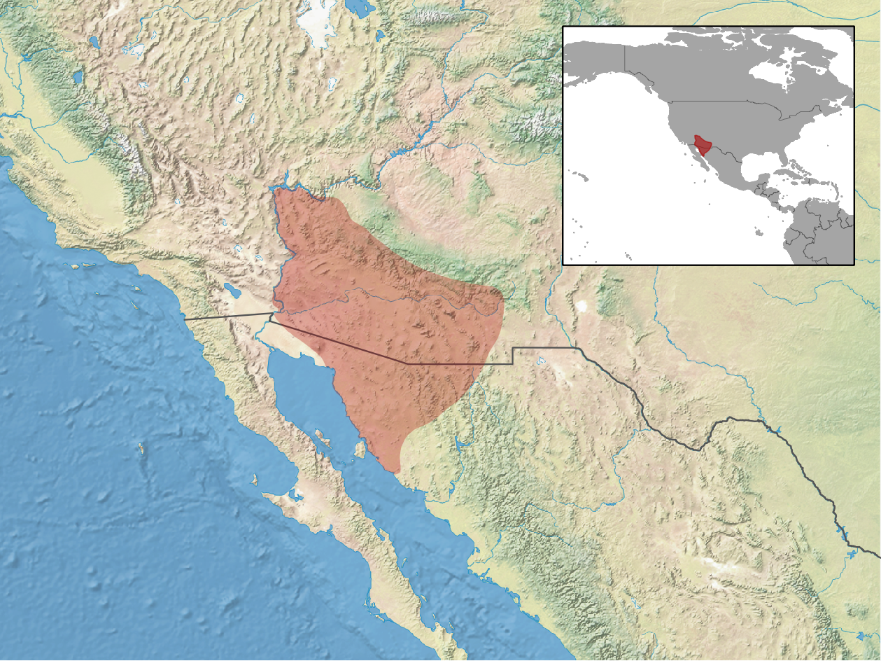 geographic distribution of Ammospermophilus harrisii